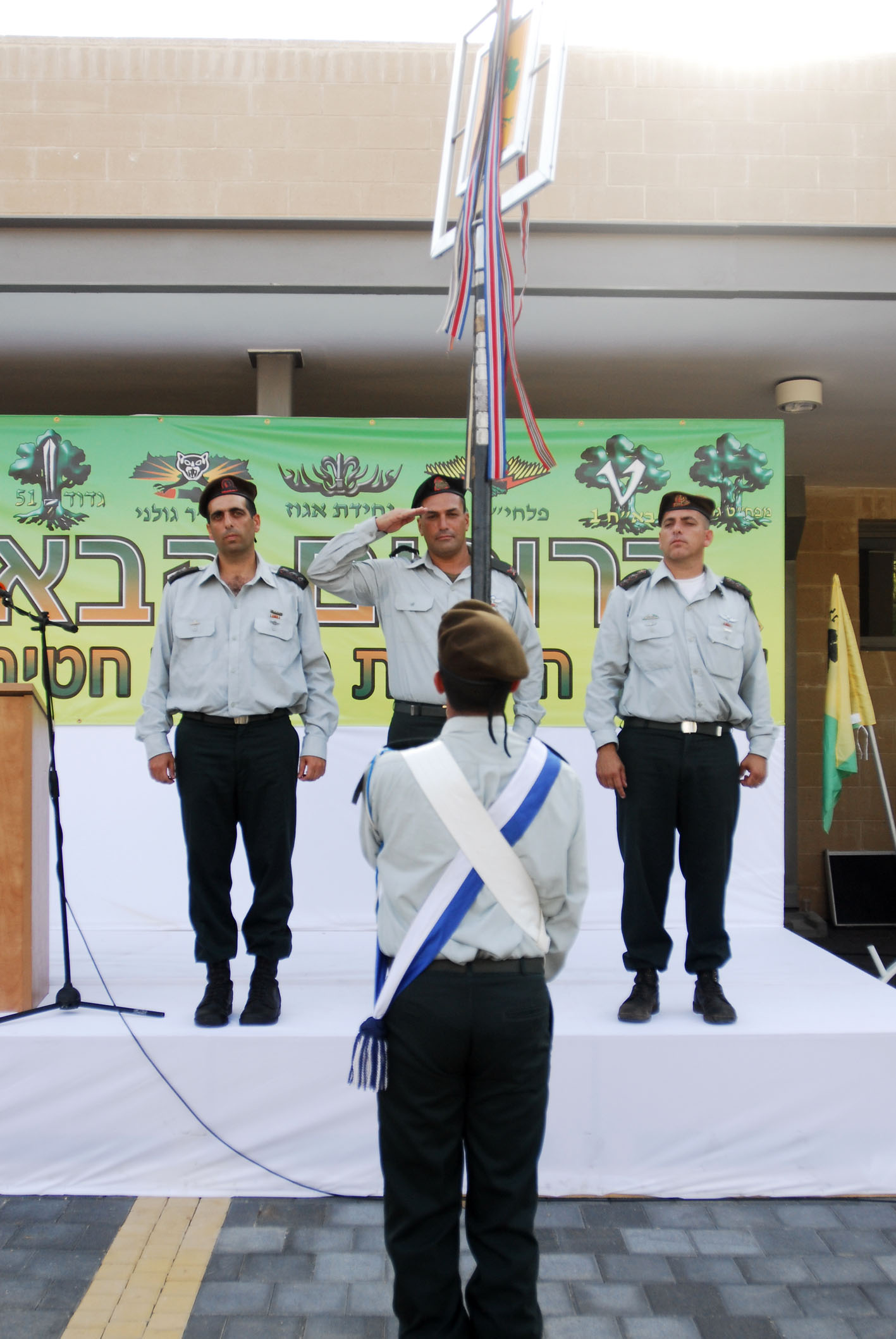 June 29, 2010. Col. Ofek Buchris was appointed Commander of the “Golani” Brigade. The ceremony was held at the “Golani” Brigade training base in attendance of the OC Northern Command, Maj. Gen. Gadi Eizenkot, and Commander of the 36th Division, Brig. Gen. Eyal Zamir. Col. Ofek Buchris replaced Col. Avi Peled, who served in the position for the last two years. Photography: SSgt. Ori Shiprin, IDF Spokesperson's Unit. The Israel Defense Forces Facebook • blog • Twitter